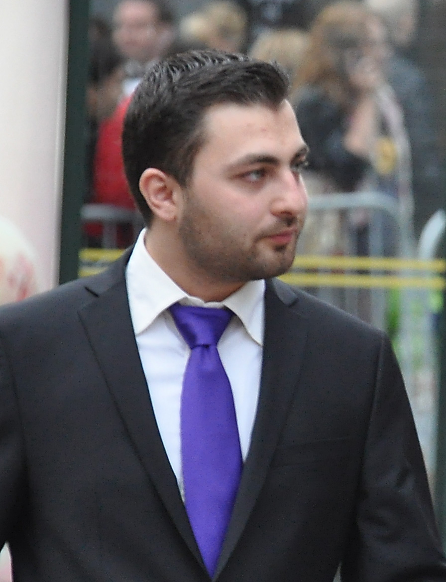 Wedding of Victoria, Crown Princess of Sweden, and Daniel Westling; Arrival of members for the Gouvernment and Swedish and foreign guests of hounour to the Riksdag's Gala Performance at Konserthuset